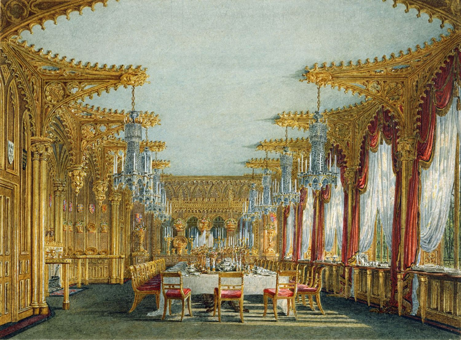 A view of the Gothic Dining Room at Carlton House in London The aquatint engraving of this picture was published as plate 97 of W.H. Pyne (1819), The History of the Royal Residences